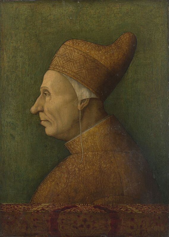 Portrait of the doge of Venice Nicolò Marcello. Oil on canvas by Gentile Bellini, after 1474.